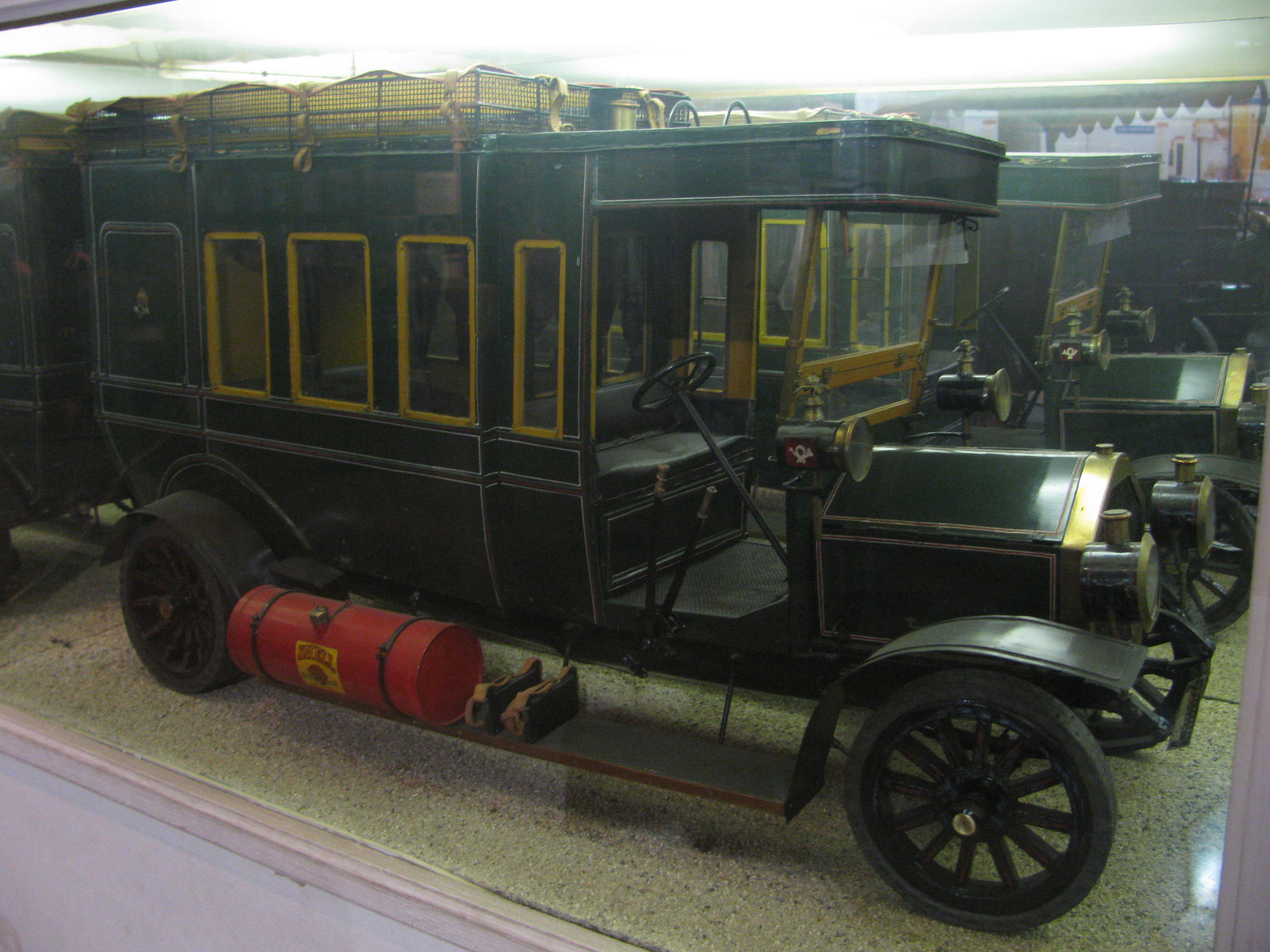 Model illustrating of a Röck-Csonka mail bus of 1910. The buses operated around Károlyváros (Karlovac) between 1910–1914.